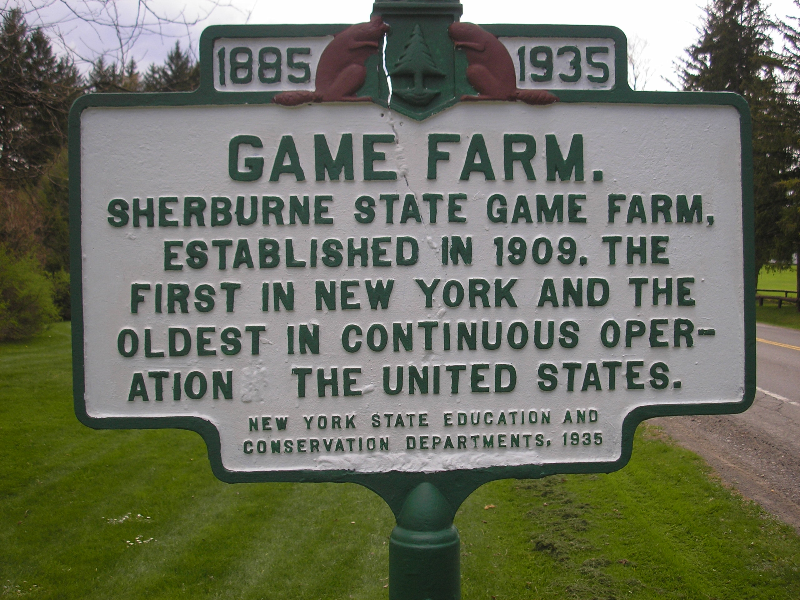 Historic marker of State Game Farm, Sherburne, NY. Established 1909, the first in New York and oldest in continuous operation in the United States.